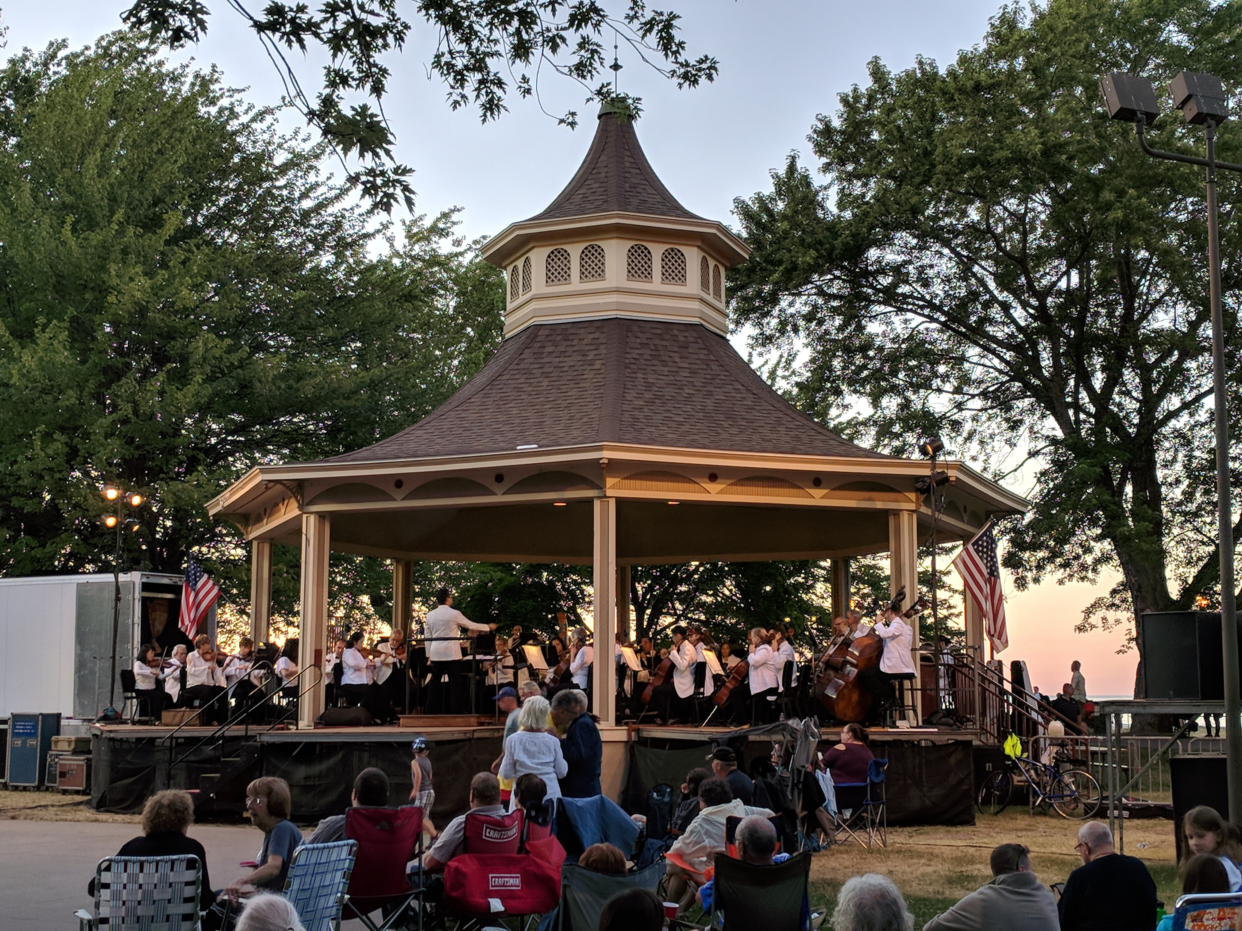 The Rochester Philharmonic Orchestra plays a Wegmans Concert by the Shore at Ontario Beach Park